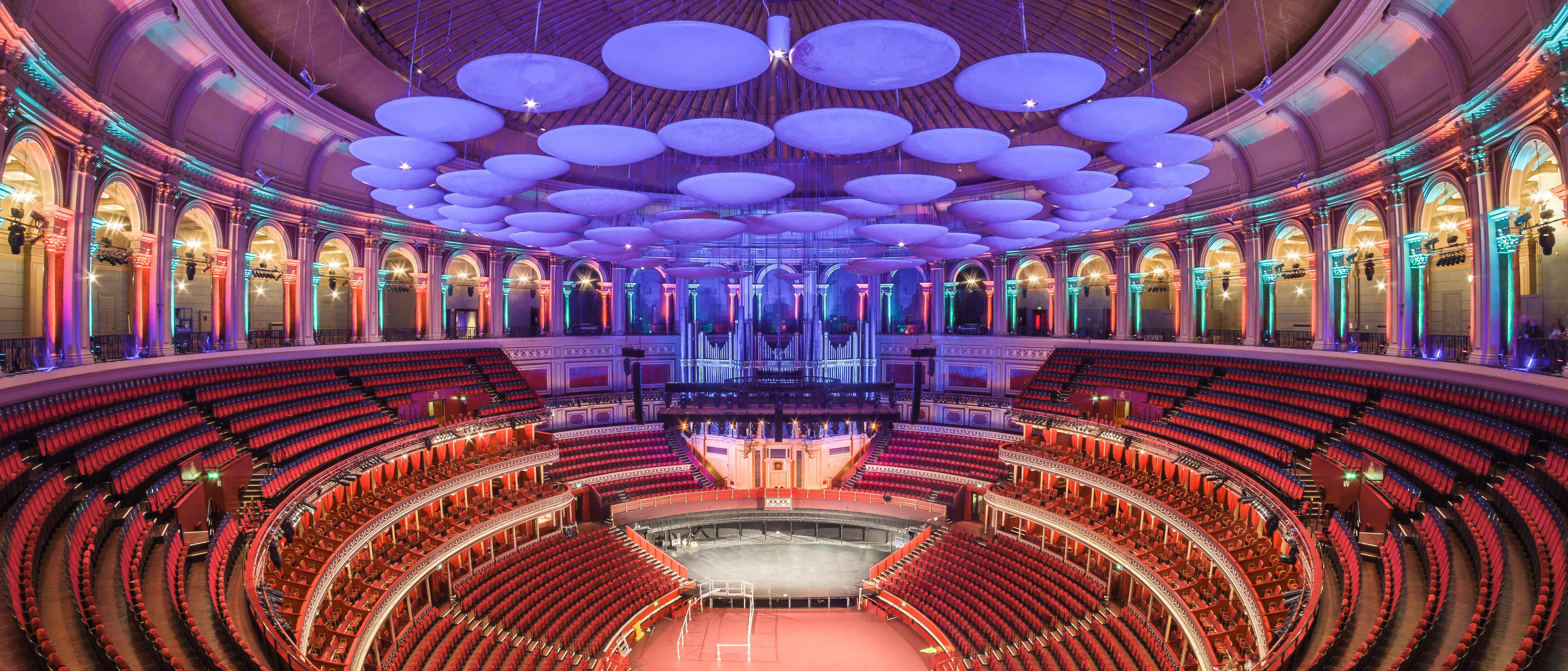 The Royal Albert Hall viewed from the centre of the Gallery.